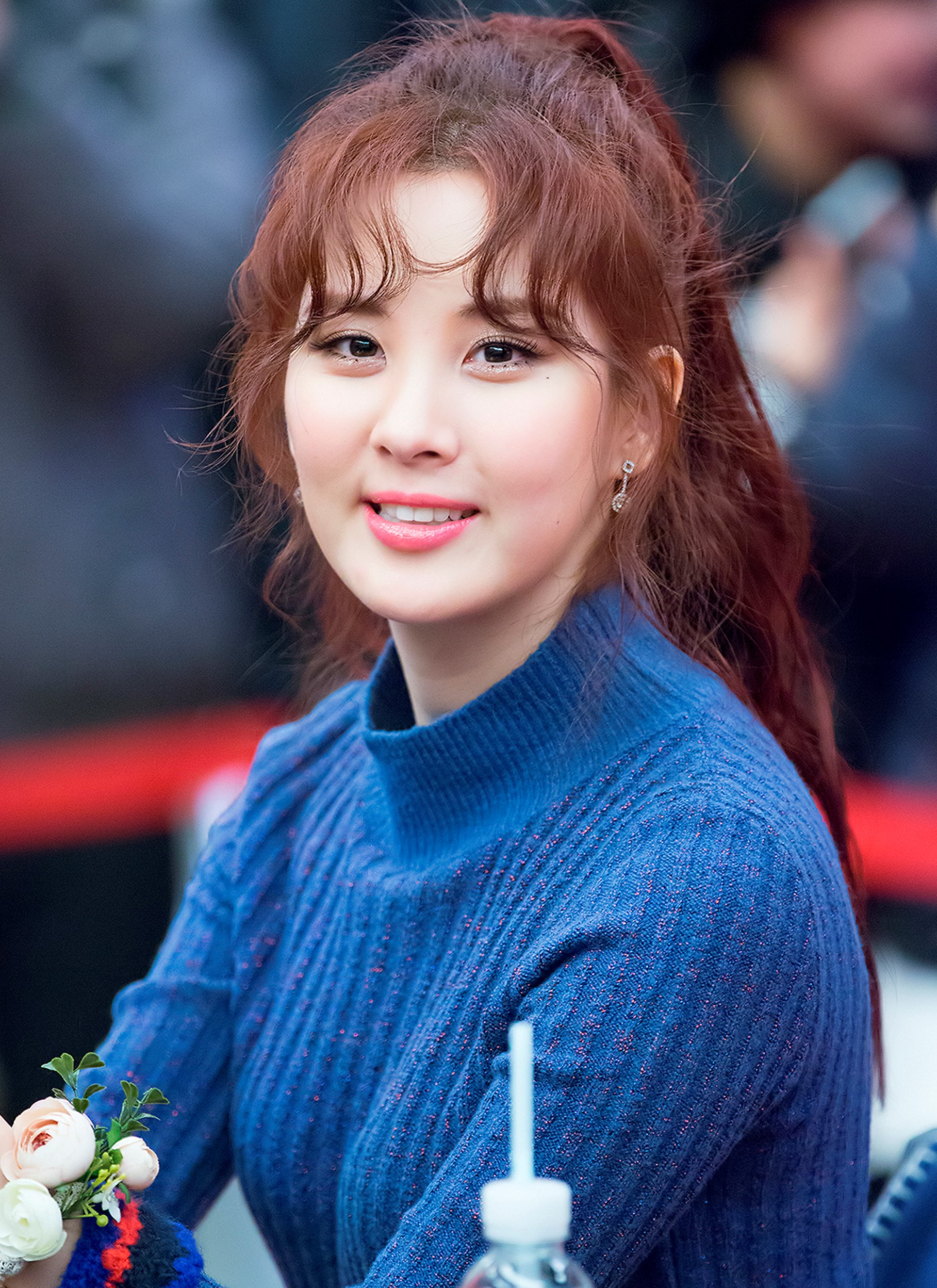 Seohyun at a fansigning on February 5, 2017